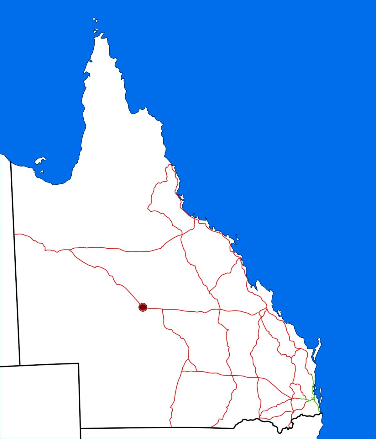 Queensland Map with Longreach marked.